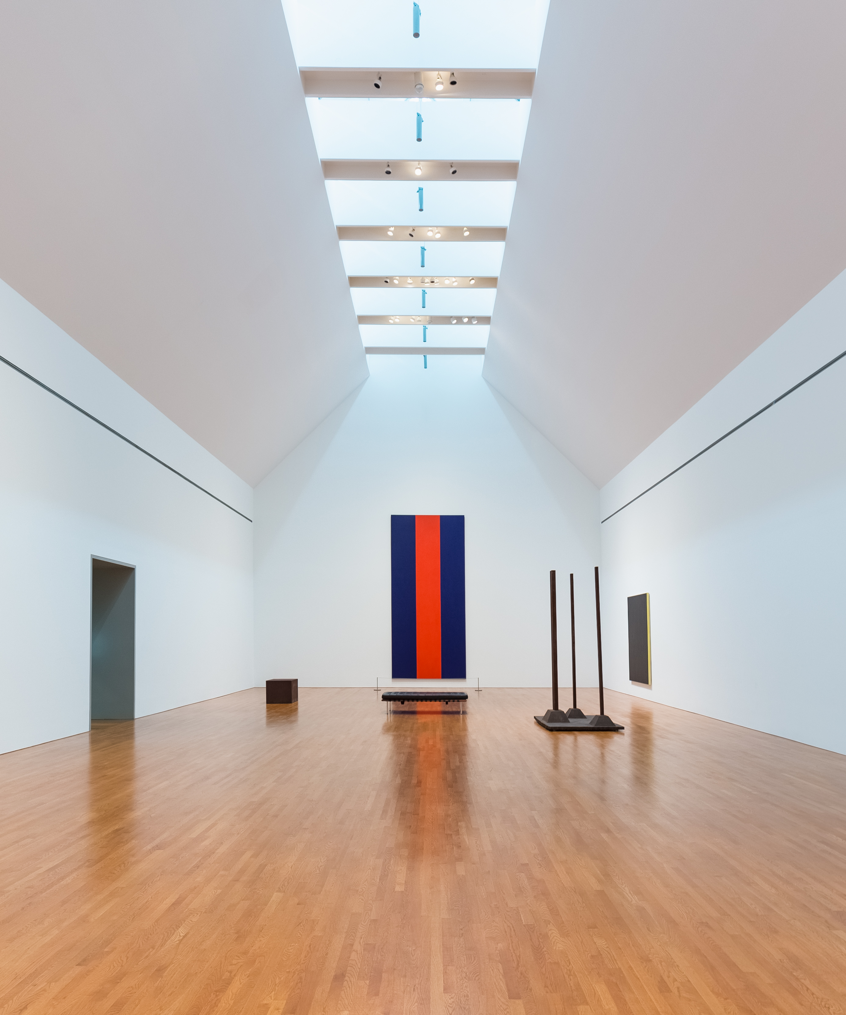 The 1967 Barnett Newman painting entitled "Voice Of Fire" hanging in the National Art Gallery of Canada, Ottawa Ontario, on July 2, 2015.